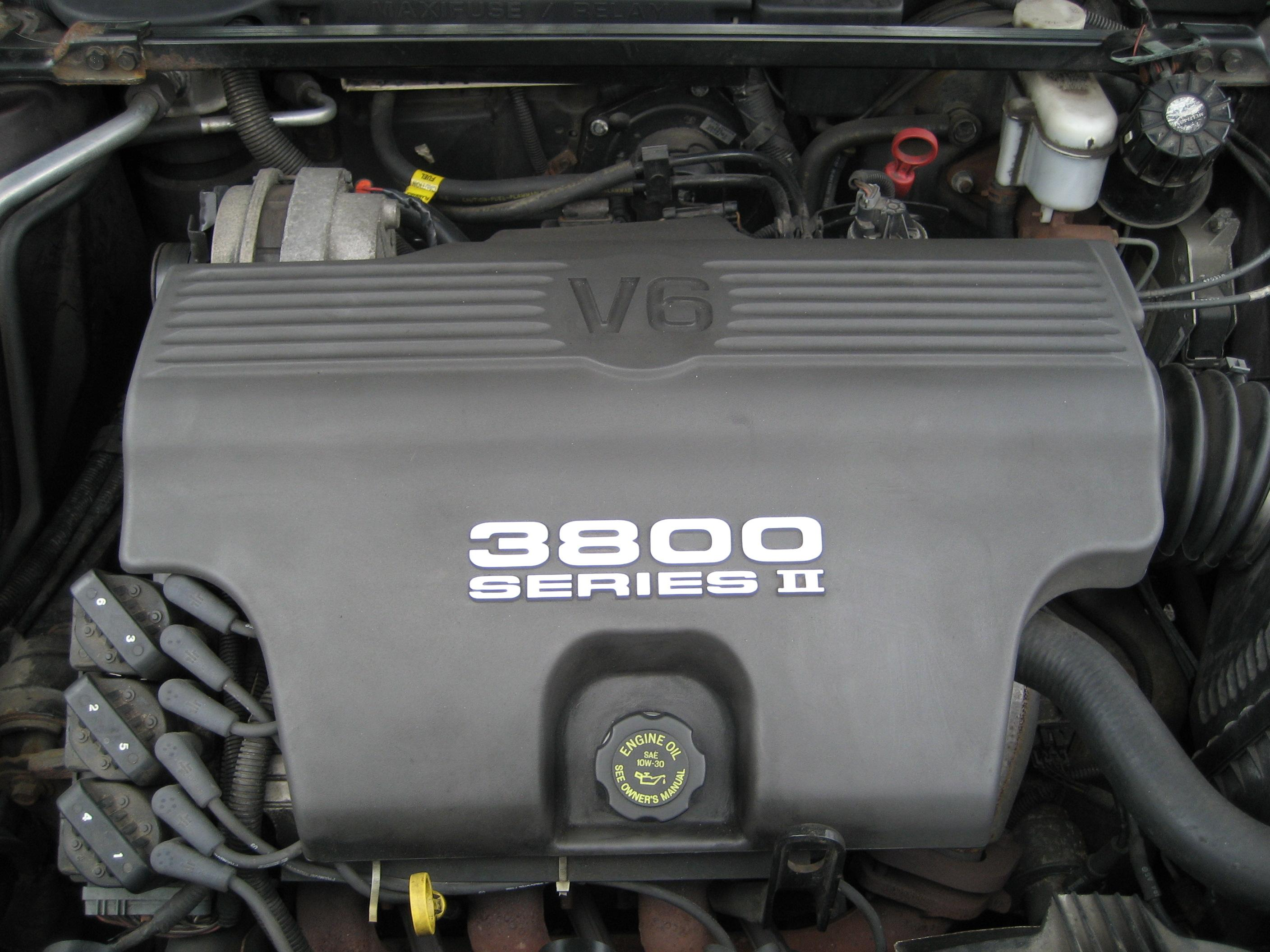 GM 3800 Series Naturally Aspirated I acquired this photo with my own camera from my own vehicle. I did not obtain it from a website or any other source except myself.